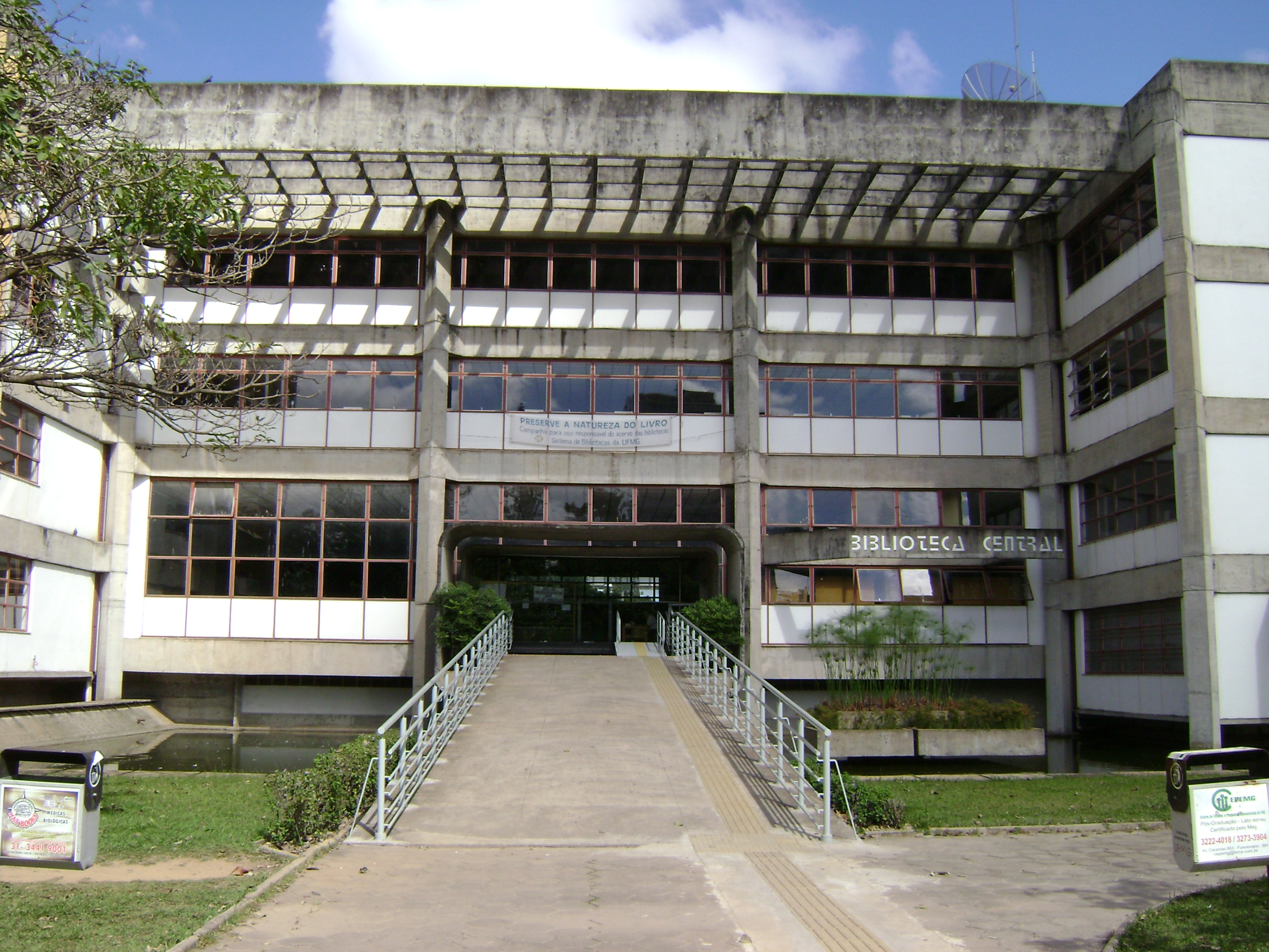 Entrada da Biblioteca Central da Universidade Federal de Minas Gerais.